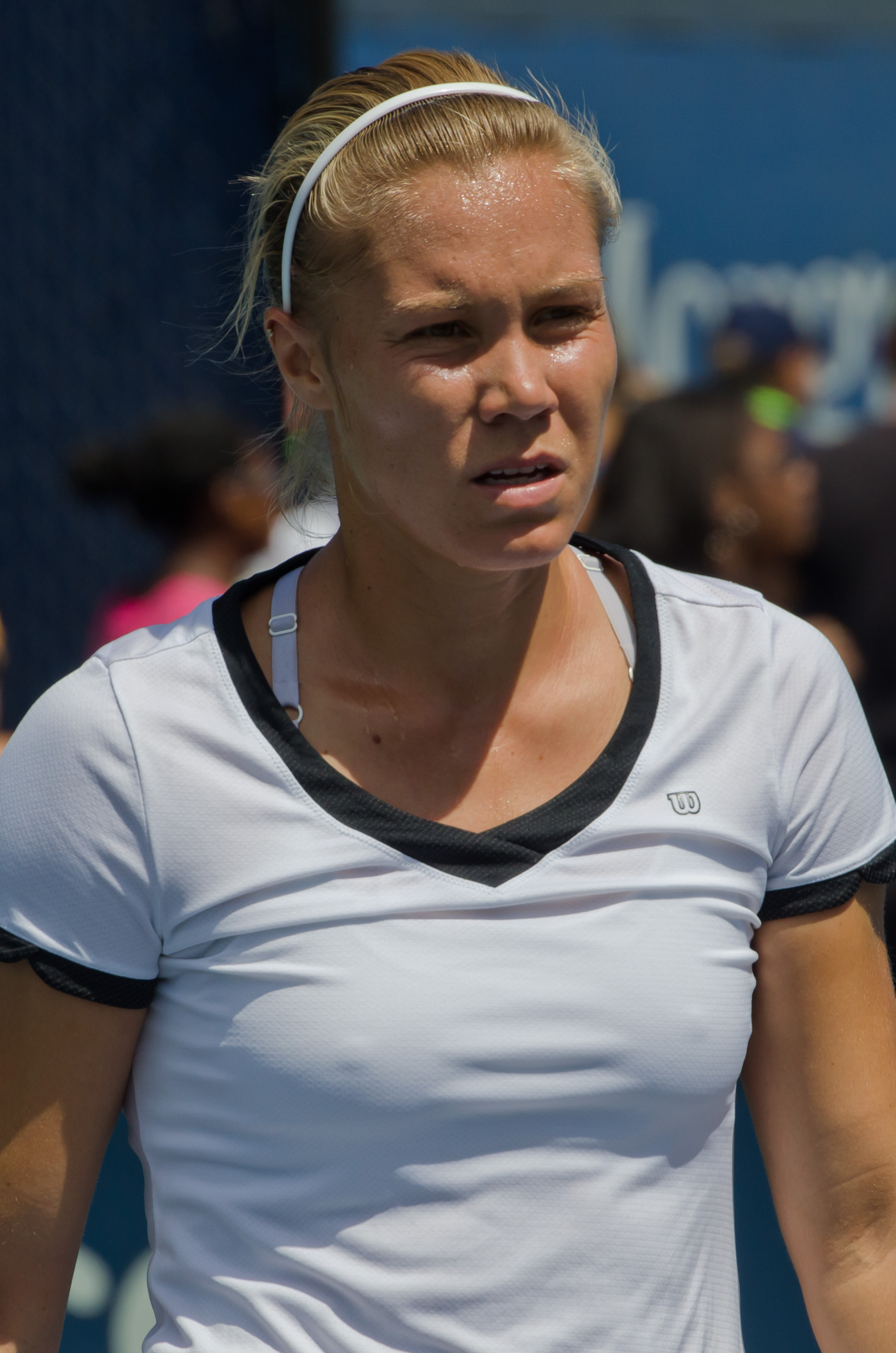 Nina Bratchikova at the 2011 US Open